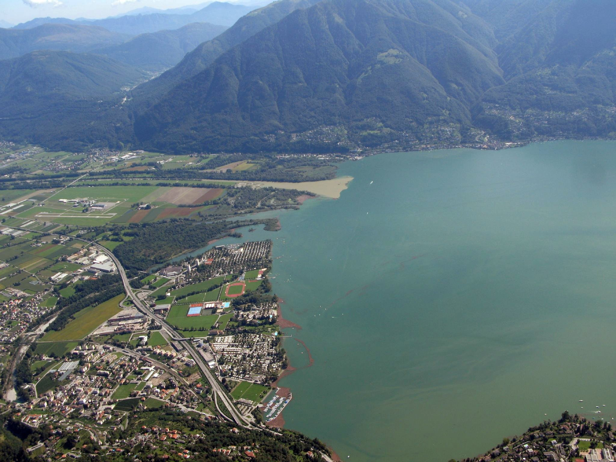 Tenero-Contra and Gordola at the mouth of the Ticino river in Lake Maggiore, in the Canton of Ticino, Switzerland